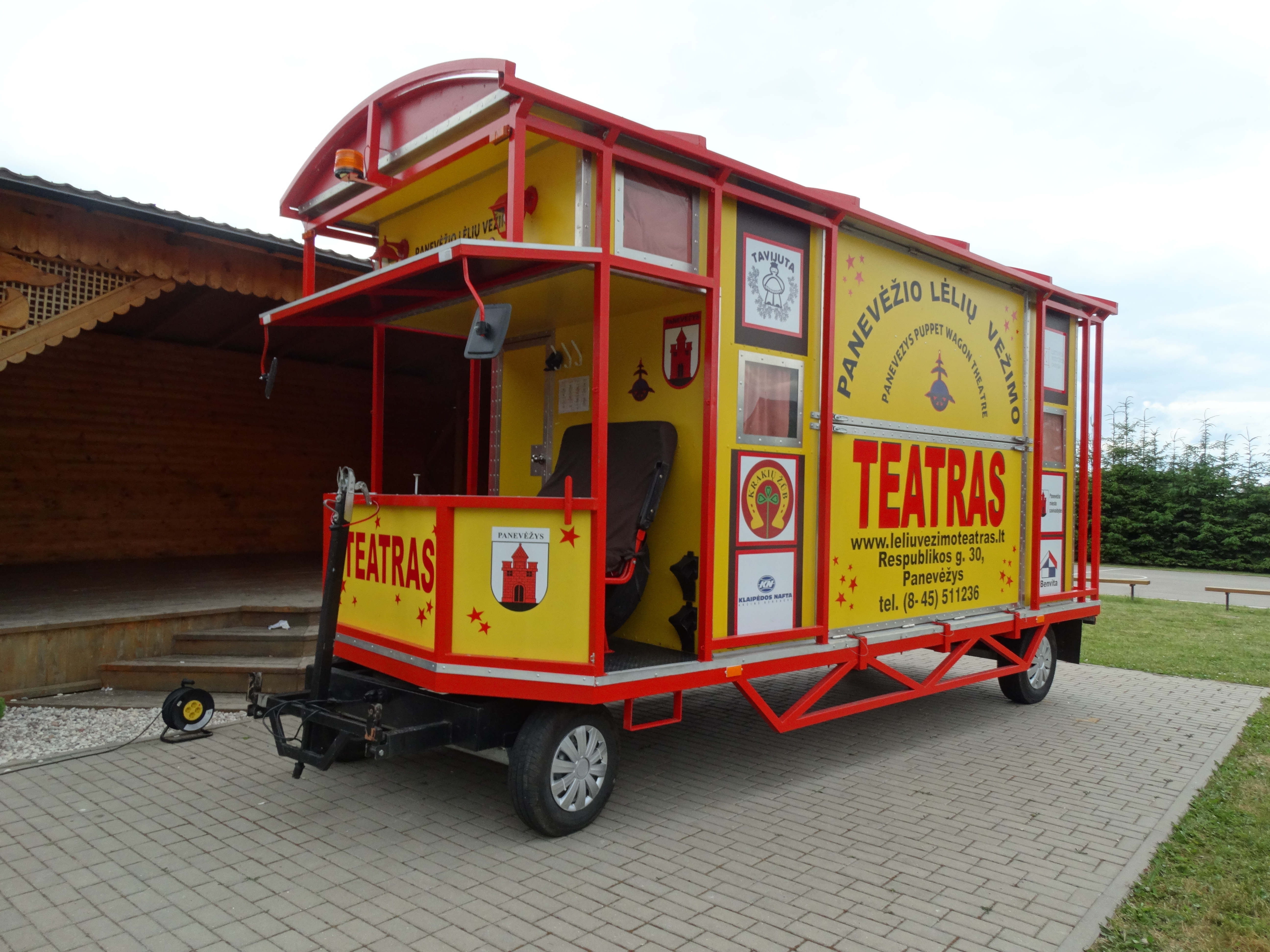 Puppet Wagon Theatre, tour near Raseiniai, Lithuania